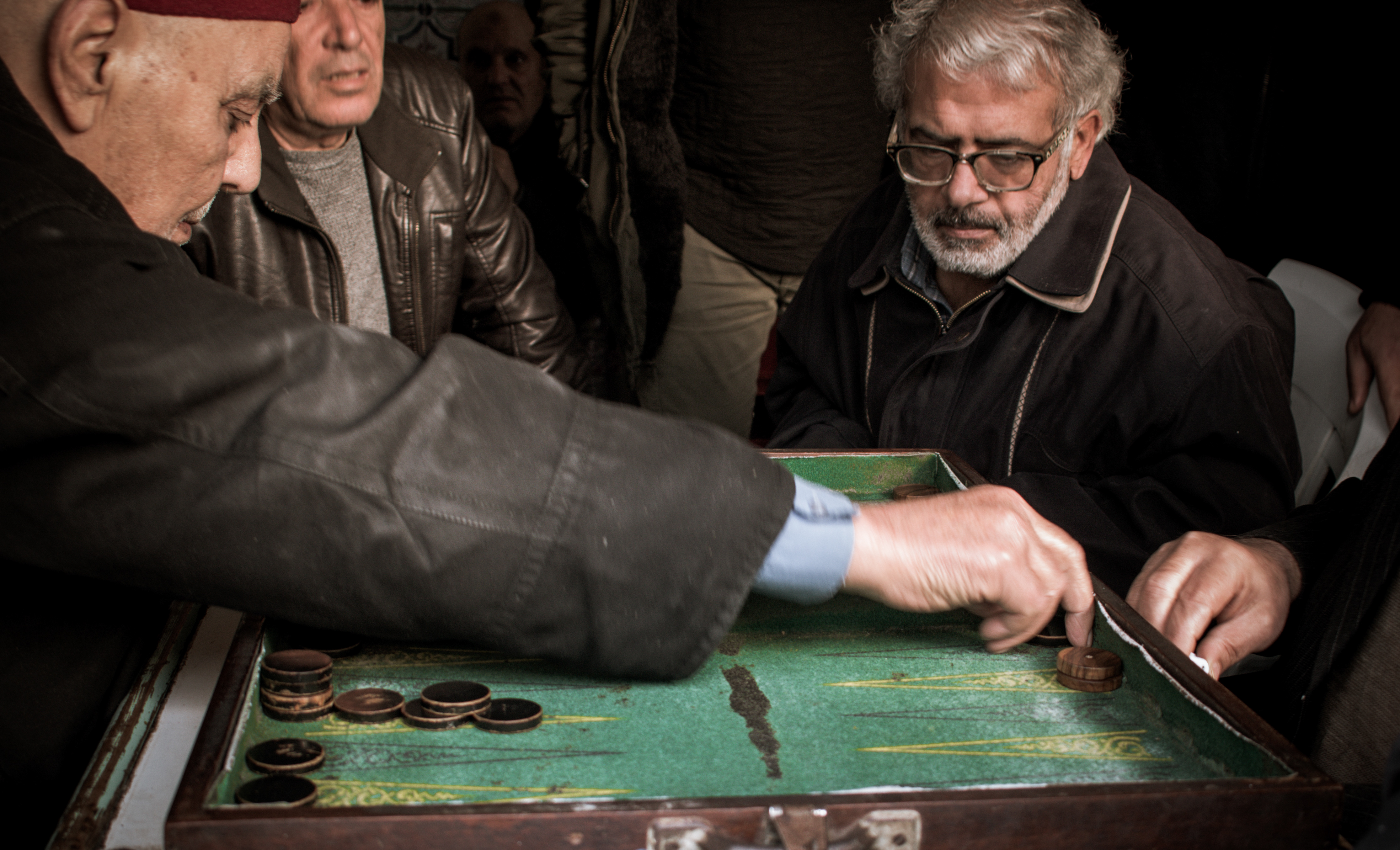 "Tawleh" in arabic means Table. The "Tawleh" is board game similar to backgammon This is an image with the theme "Play" from: Tunisia